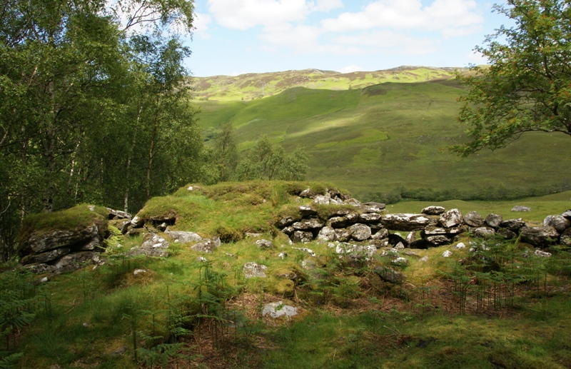 Dun Grugaig, Lochalsh, Highland, Scotland - interior looking east, with main entrance